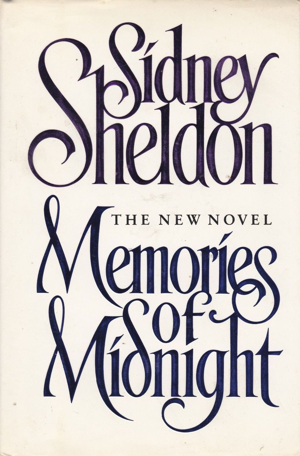 Front cover of Memories of Midnight, first hardcover edition